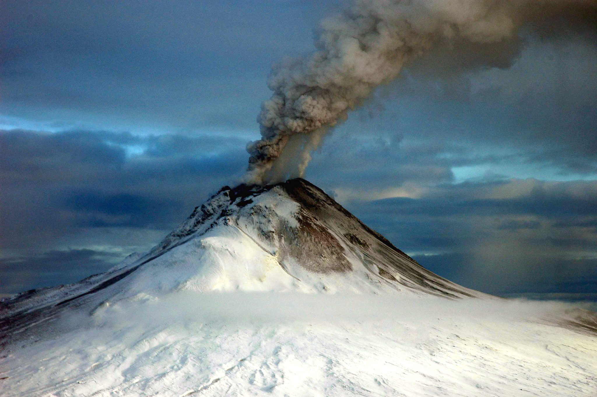 Summary Augustine volcano viewed from the west. Picture Date: January 12, 2006 14:00:00 Image Creator: McGimsey, Game Image courtesy of U.S. Geological Survey. Source : Alaska Volcano Observatory ( URL